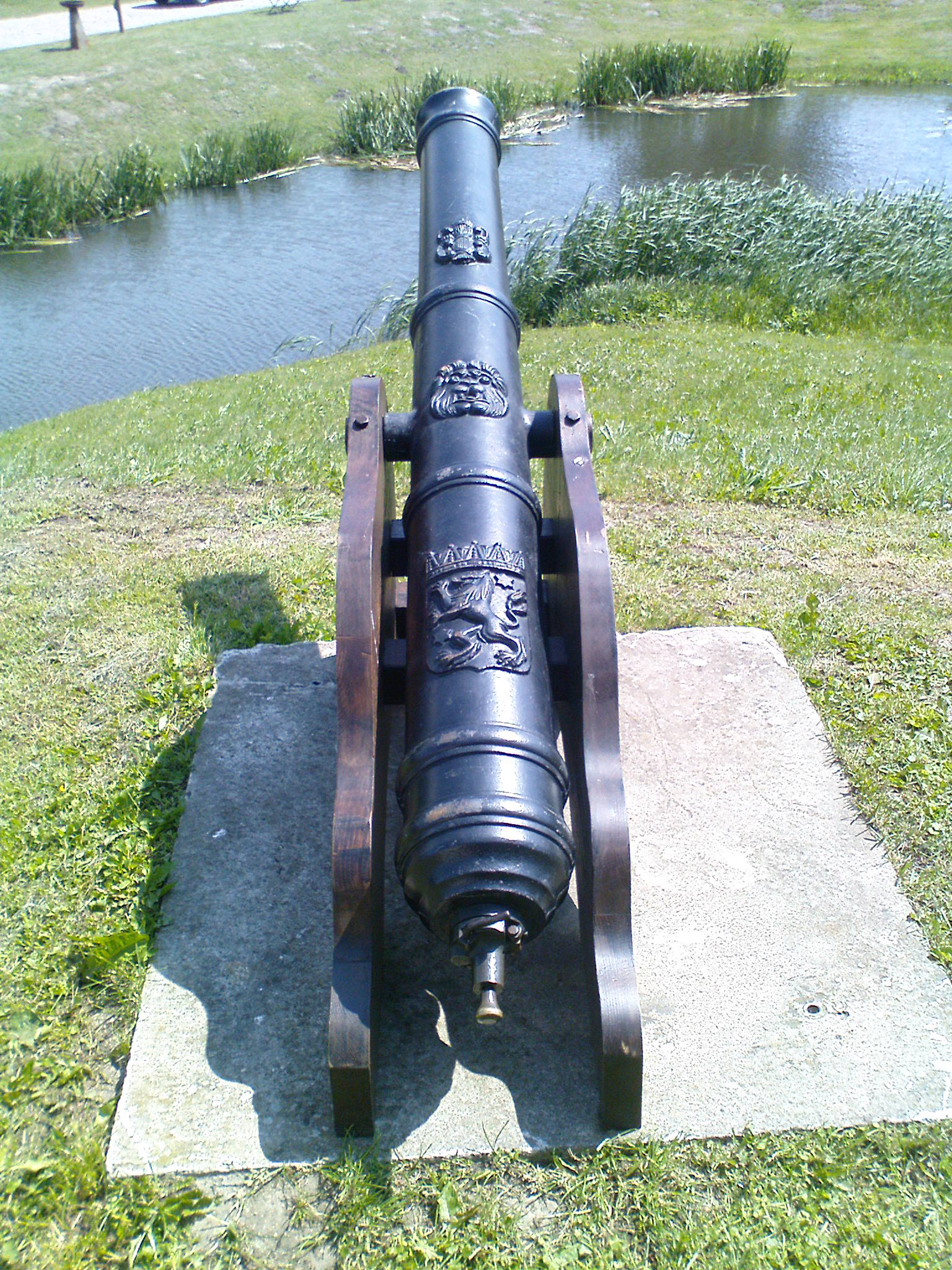 Cannon at Castle Ulrichshusen (Germany)